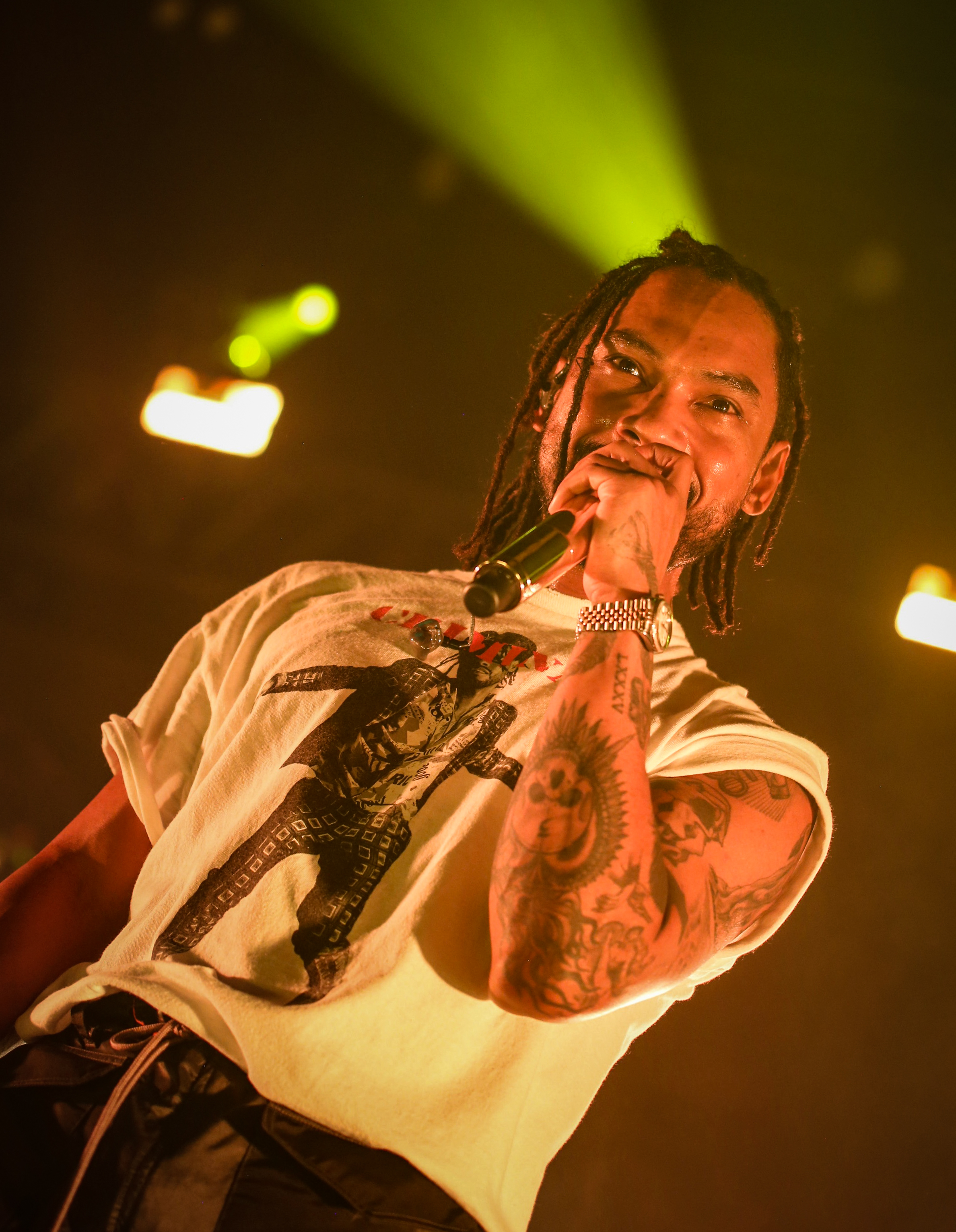 Miguel War and Leisure Tour St. Paul Palace Theatre 3/2